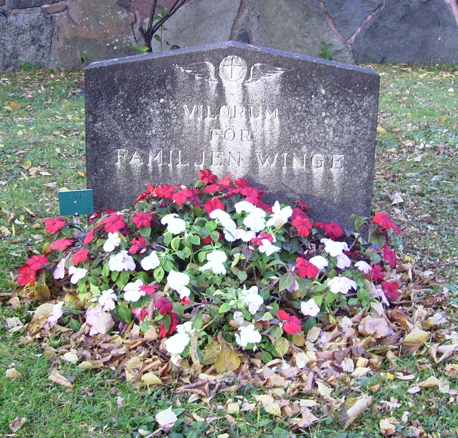 Picture of Allan Winge's grave at Solna kyrkogård